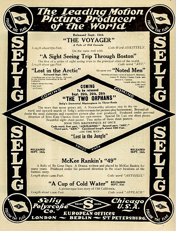 Promotion of Lost in the Arctic on same reel ("split reel") with Noted Men, along with several other September releases by Selig Polyscope Company in 1911; published in the trade publication The Moving Picture World (New York, N.Y.), September 16, 1911, p. 805.